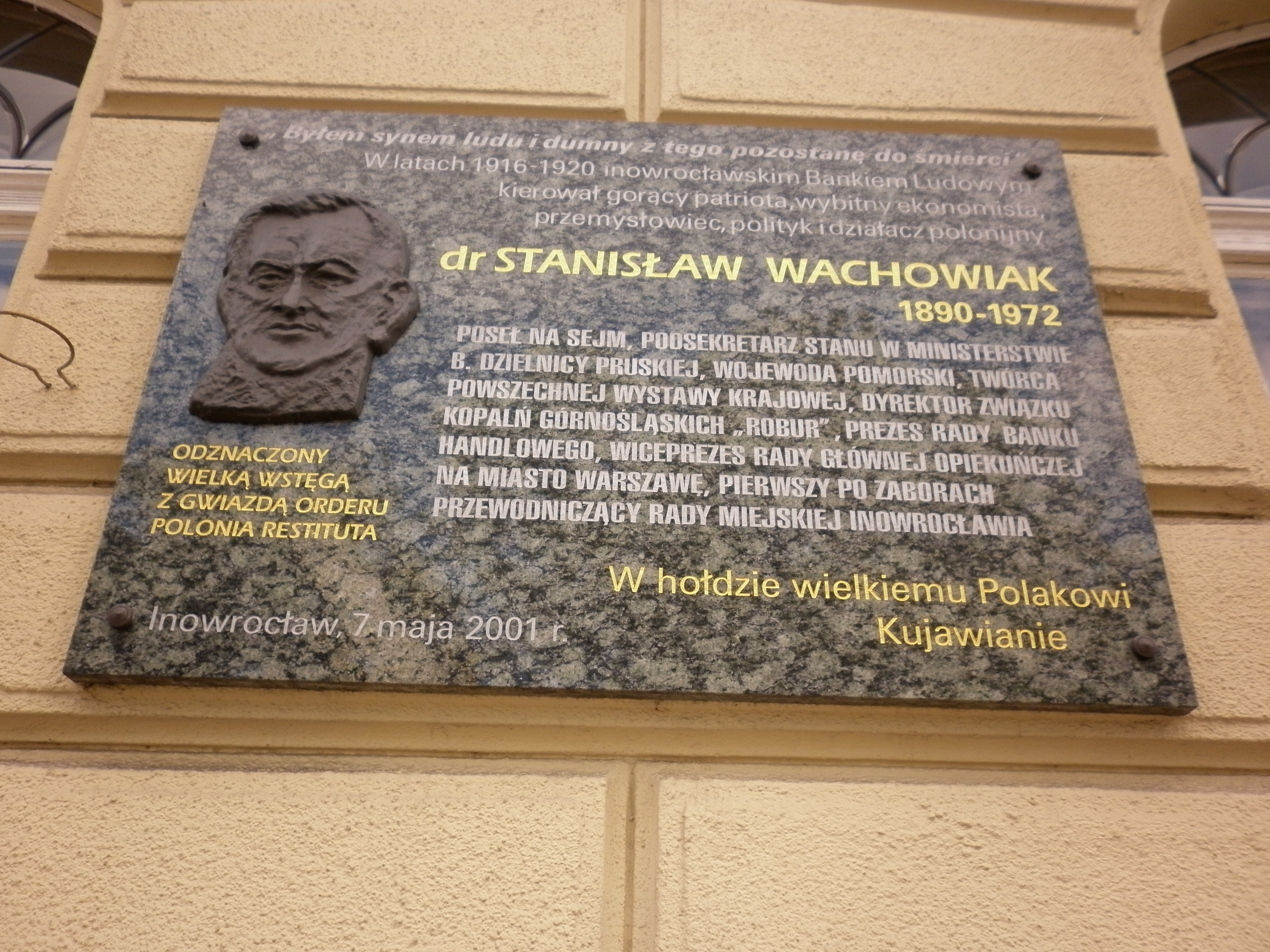 Stanisław Wachowiak table